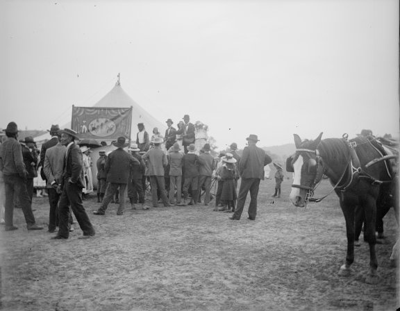 The boxing tent at the Gundagai Show. Photographed by Louis Gabriel some time between 1887 and 1927.